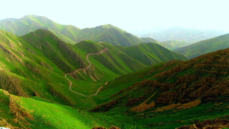 Nature of Kermanshah province Kurdî: Xwezaya Kirmaşanê